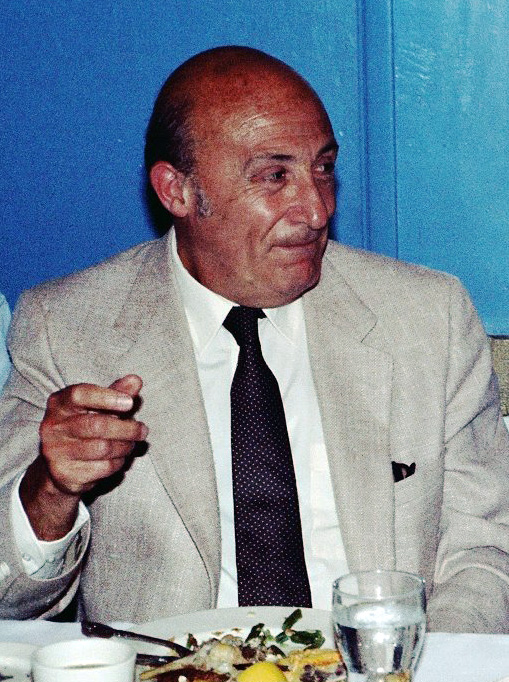 Cartoonist Will Eisner at the Inkpot Awards ceremony at the 1982 San Diego Comic Con (today called Comic-Con International).